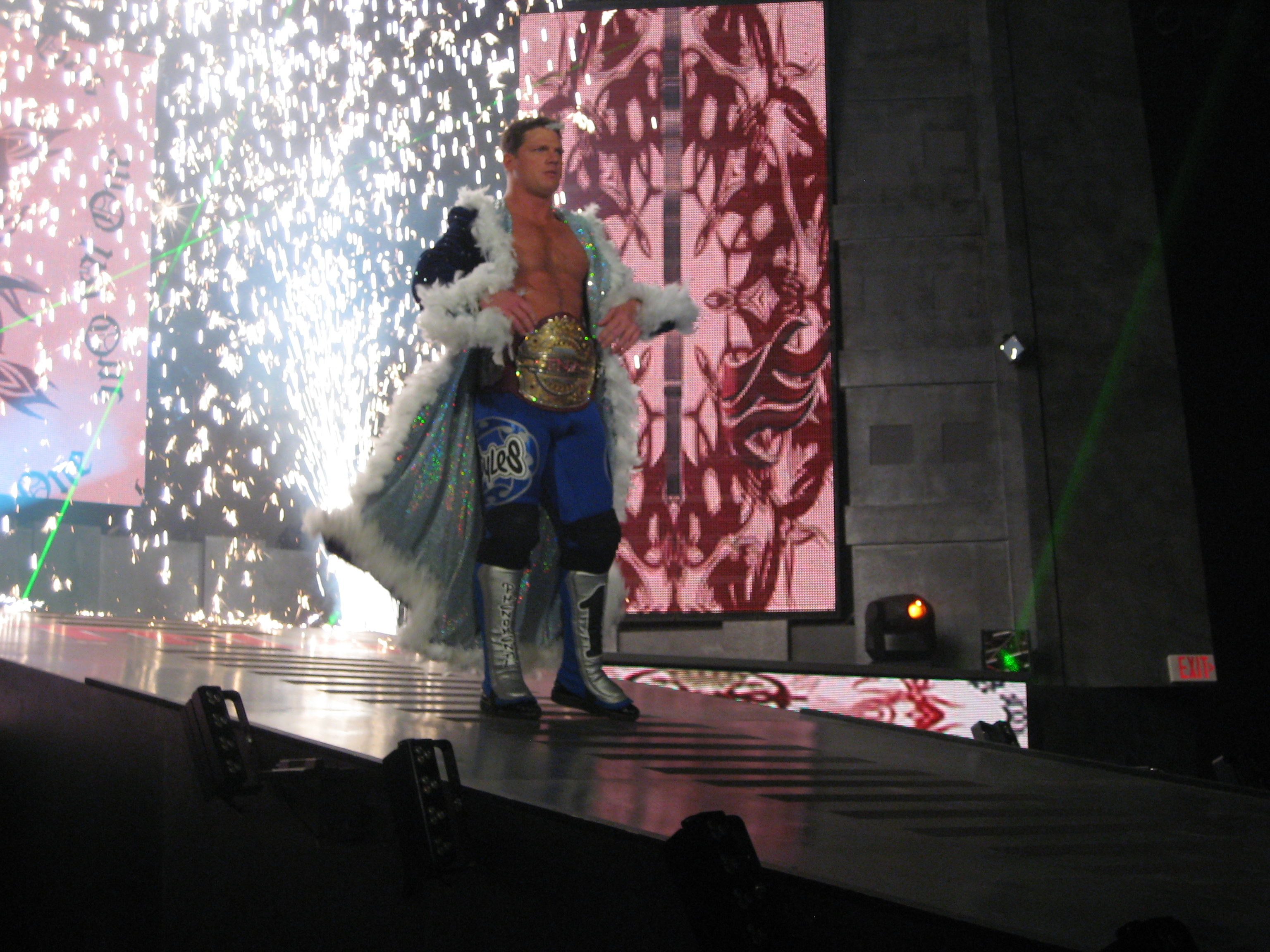 September 8th, 2010 tapings.